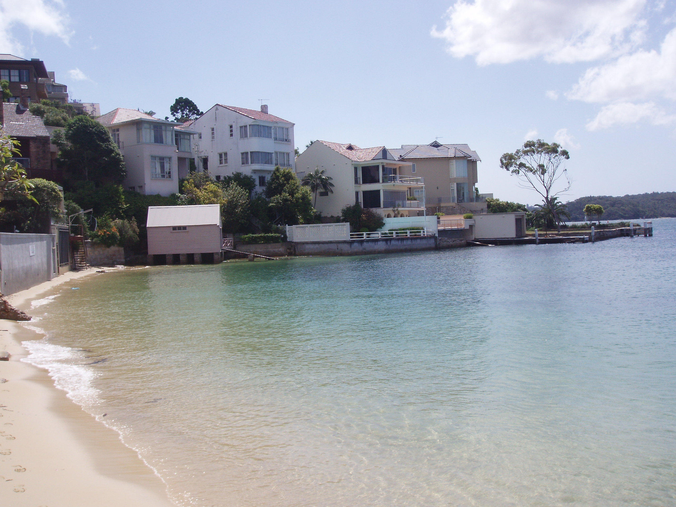 Houses at Lady Martins Beach, Point Piper, Sydney